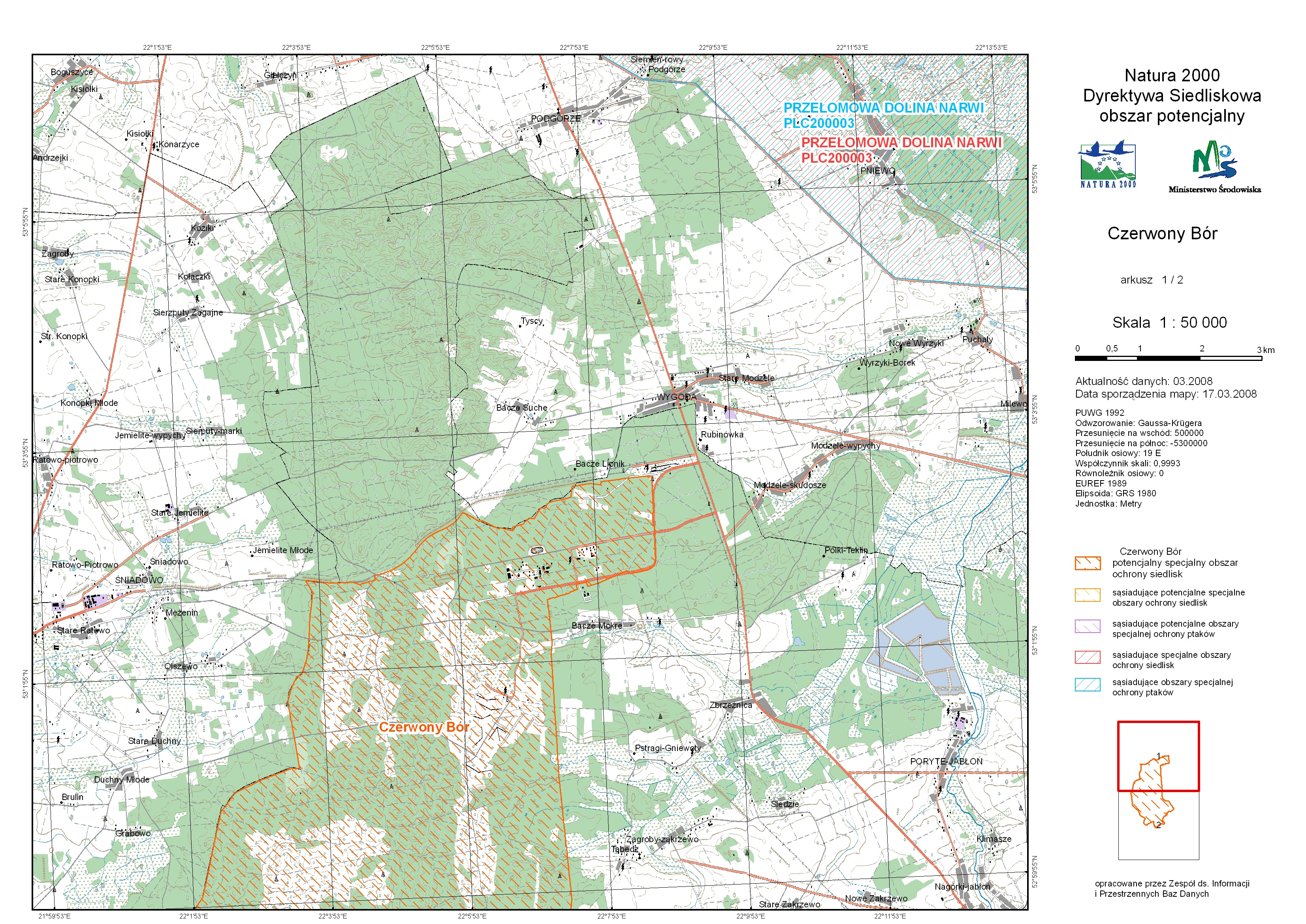 map of potential special protection area of NATURA 2000 - Czerwony Bór , scale 1:50 000, sheet 1/2